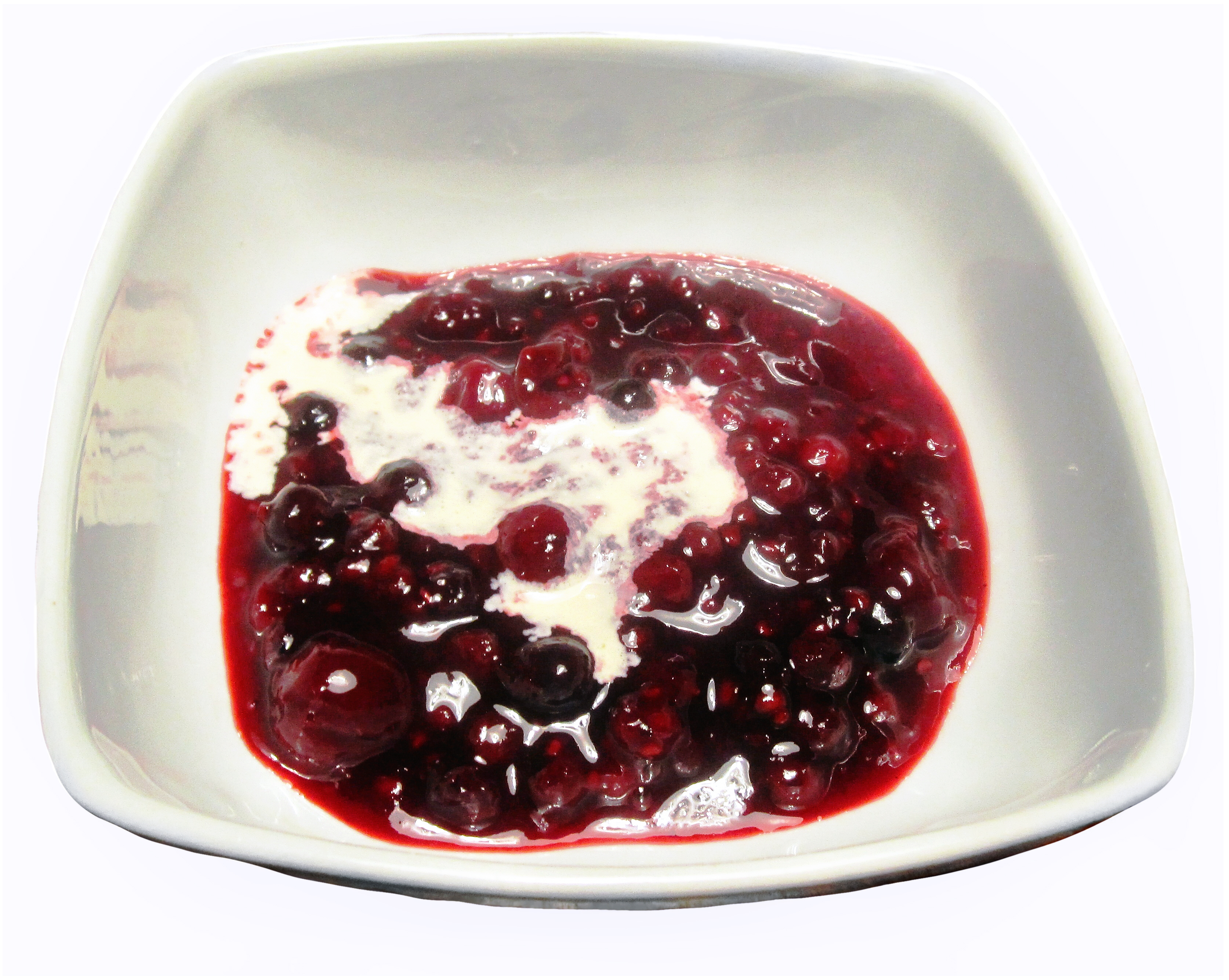 Rote Grütze. A typical German dessert.